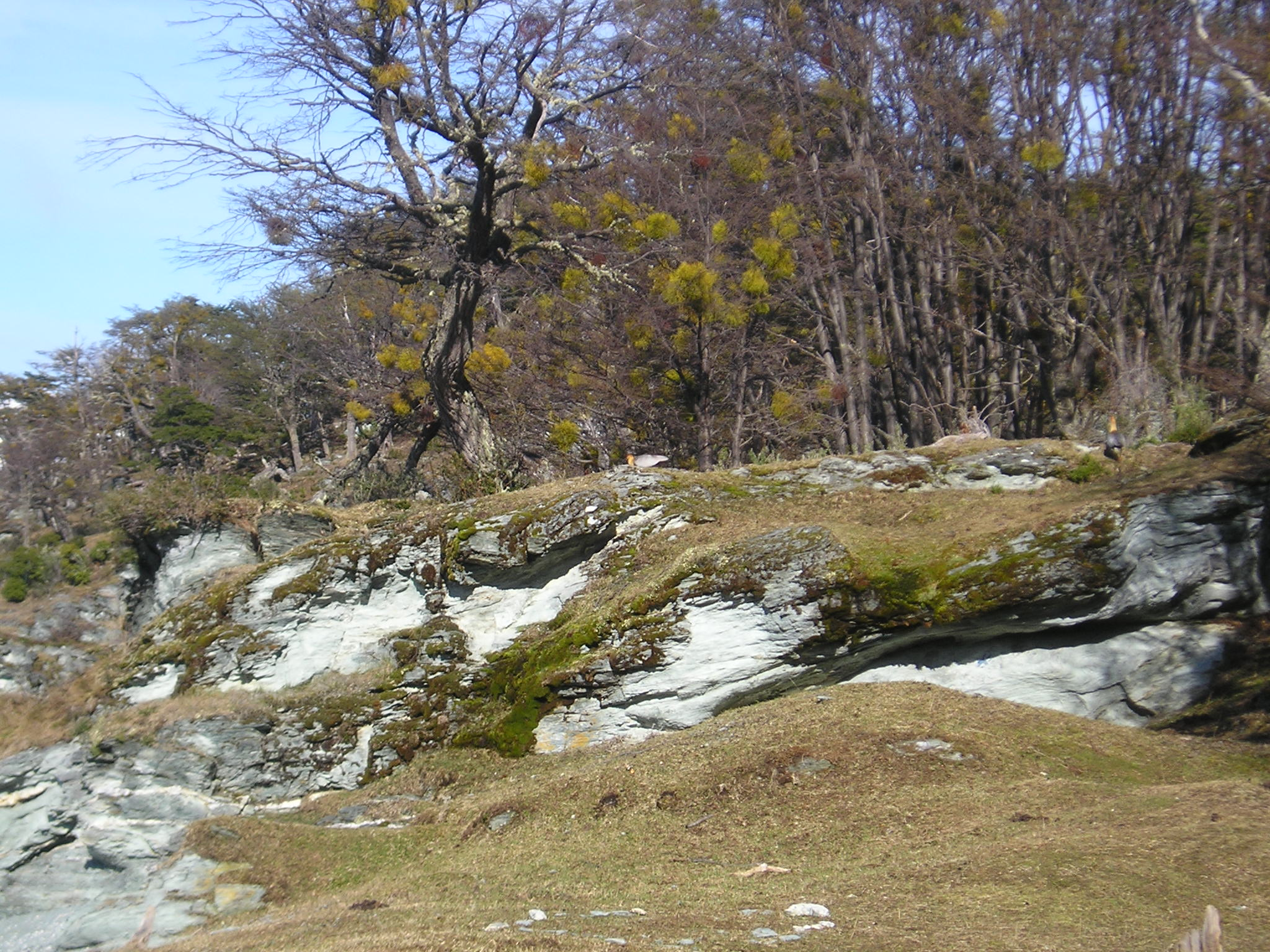 Semiparasitic plant Misodendrum punctulatum on lengas (Nothofagus pumilio). A photo taken in the Tierra del Fuego National Park, a few km west of Ushuaia, Argentina